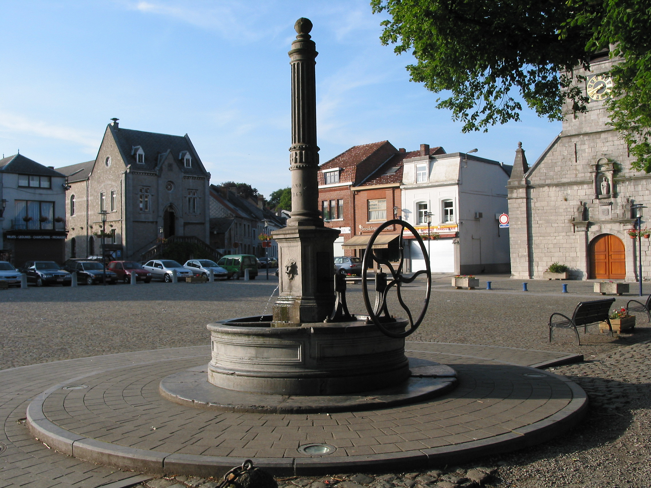 Mariembourg (Belgium), place Marie de Hongrie - The city hall and the fountain.